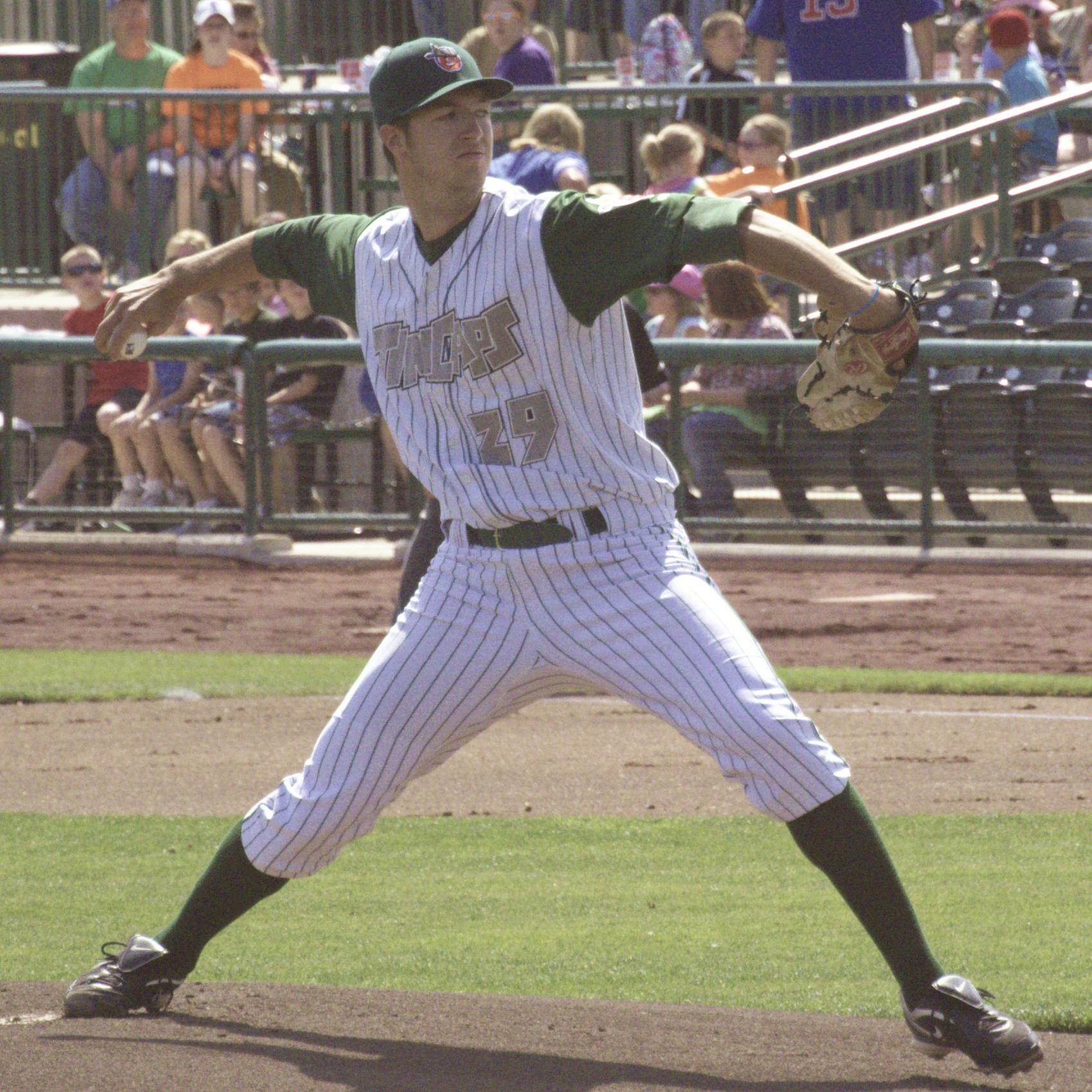 Colin Rea